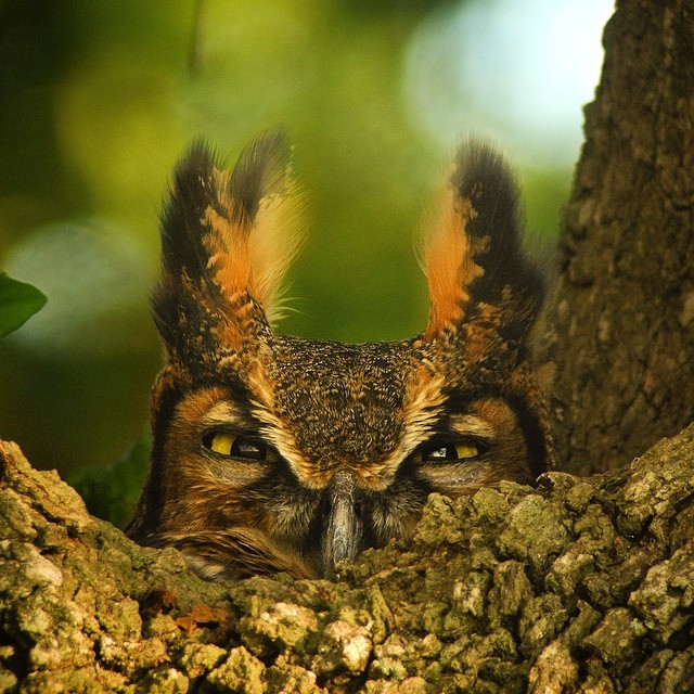 A female Great Horned owl on her nest. Credit: Dennis Demcheck, USGS. Location: Thornwell, Louisiana.